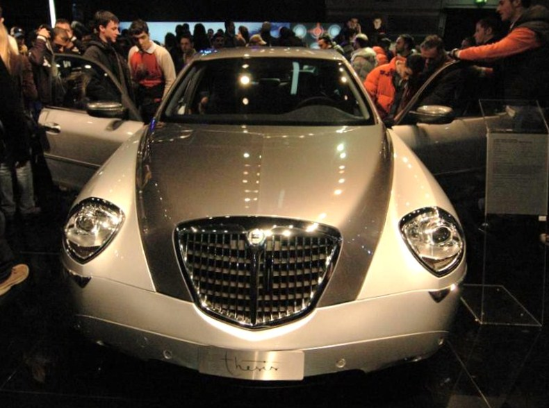 Lancia Thesis Centenario